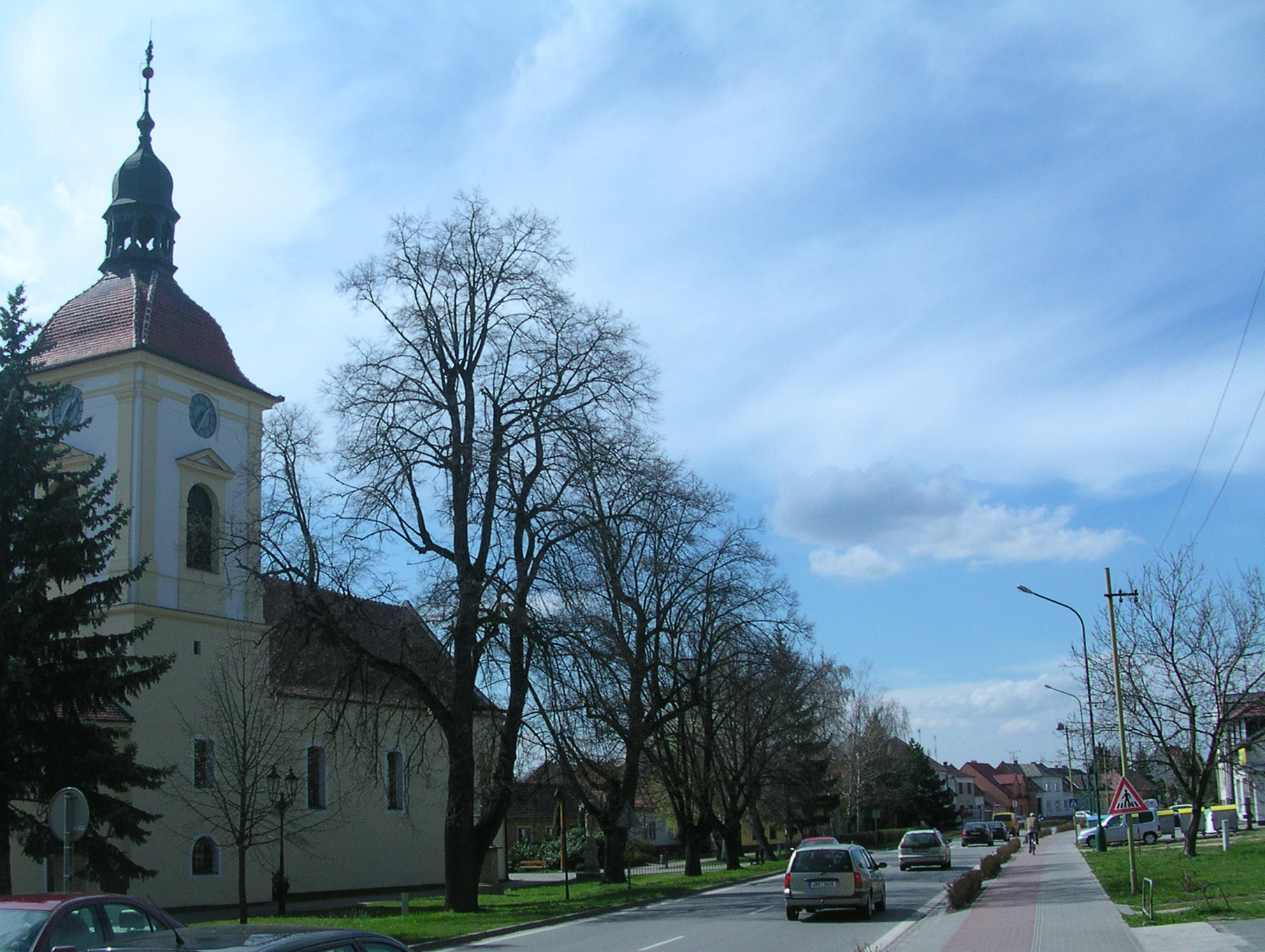 Main street and St Lawrence church in Vracov, Hodonín District, Czech Republic